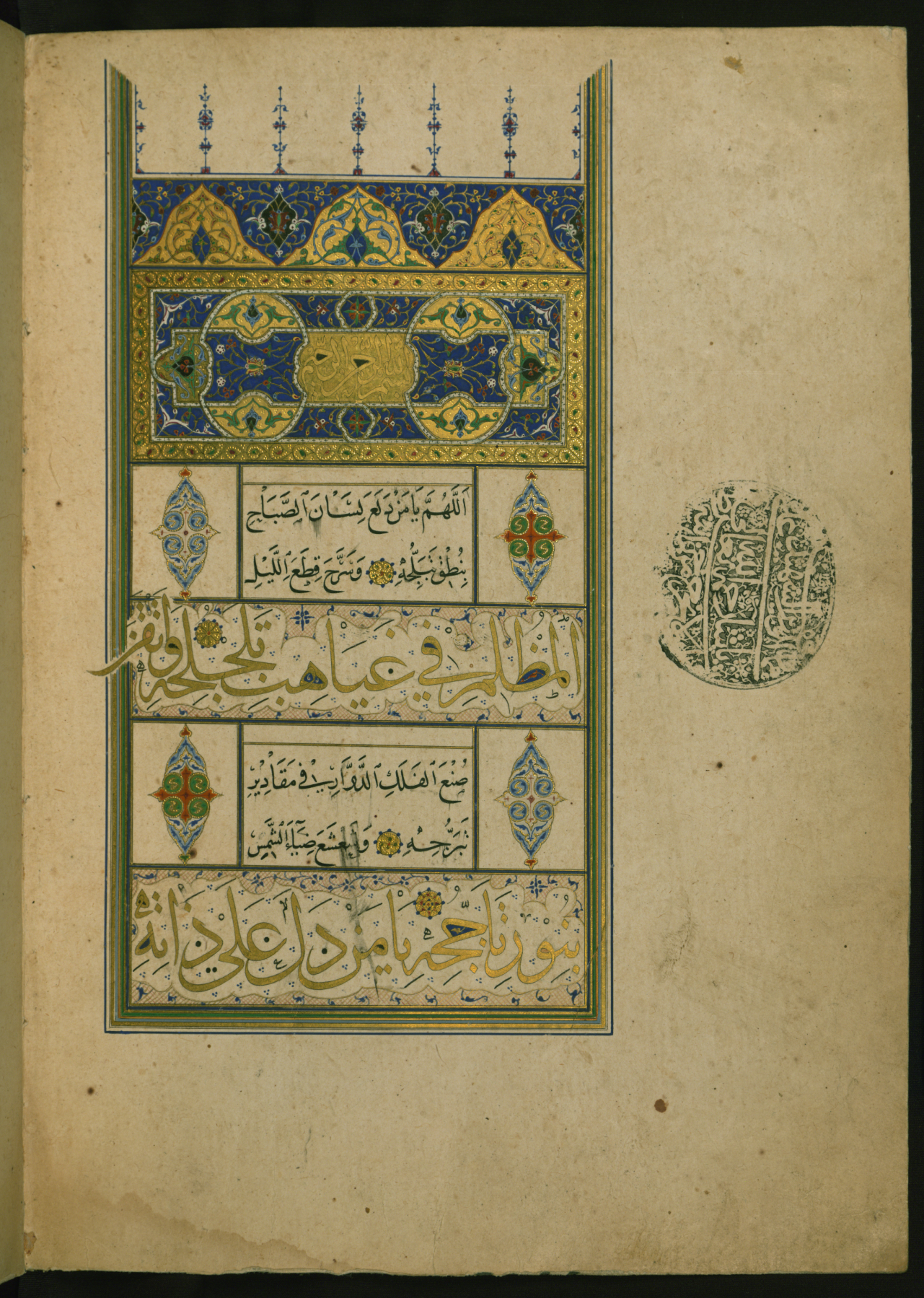 Walters manuscript W.579 opens with an illuminated headpiece containing a cartouche with the doxological formula (basmalah) in Tawqi' script. Fluid and curvilinear, Tawqi' script is used for headings and rarely used for the main text. As seen here, while having inscribed the headpiece with Tawqi', the scribe wrote the main text in alternating black Naskh and gold Thuluth. The Naskh panels are framed by medallions with a gold-tooled outline. The contours of the Thuluth lines are decorated with blue tendrils over a ground of red hatched lines. Gold rosettes mark the verse endings. The stamp in the right margin is the personal seal of the Vizier 'Ali Pasha, who gave the manuscript to an educational charity in 1130 AH/AD 1717.